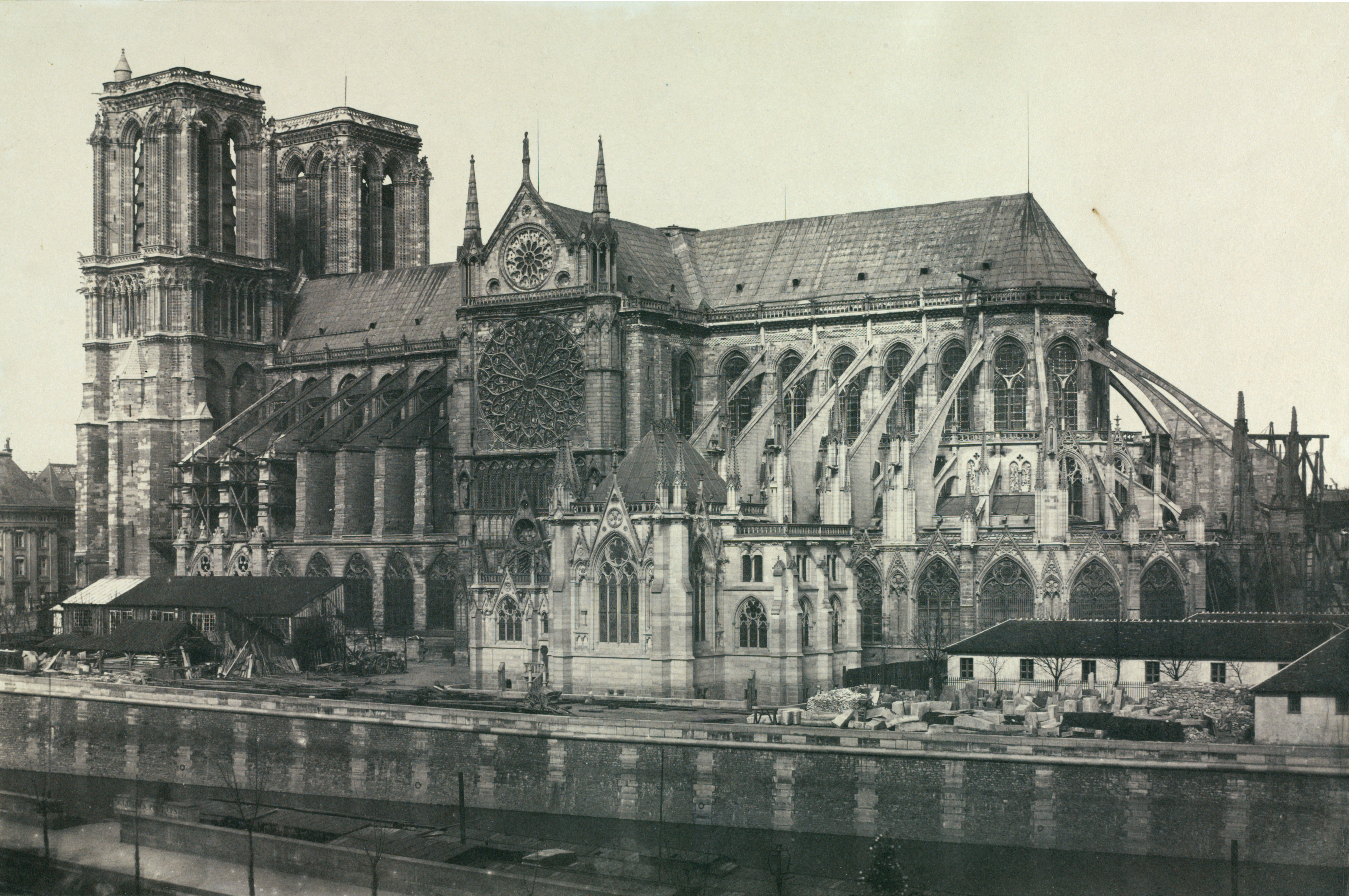 This extraordinary photograph clearly demonstrates Baldus’s genius both as an architectural photographer and as a printer. Centrally placed and filling the entire composition, this great architectural monument is clearly depicted, seemingly removed from time, as there are no interfering elements such as figures or clouds to distract from the building’s majesty. This large, ambitious view captures, almost without rival, the physical and symbolic essence of Notre-Dame. Instead of the traditional frontal view, Baldus photographed the building at an oblique angle in order to articulate the volume of the structure, and he was most conscious of the negative space created by the cathedral’s contour against the unmodulated sky. His salt prints of architectural views, with their breathtaking warm gray tones, are among the most striking achievements of 19th-century photography.